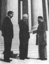 Maulvi Tamizuddin Khan, ex-President and Speaker of the Pakistani Constituent Assembly and National Assembly respectively, with the Chief Justice of the United States Earl Warren